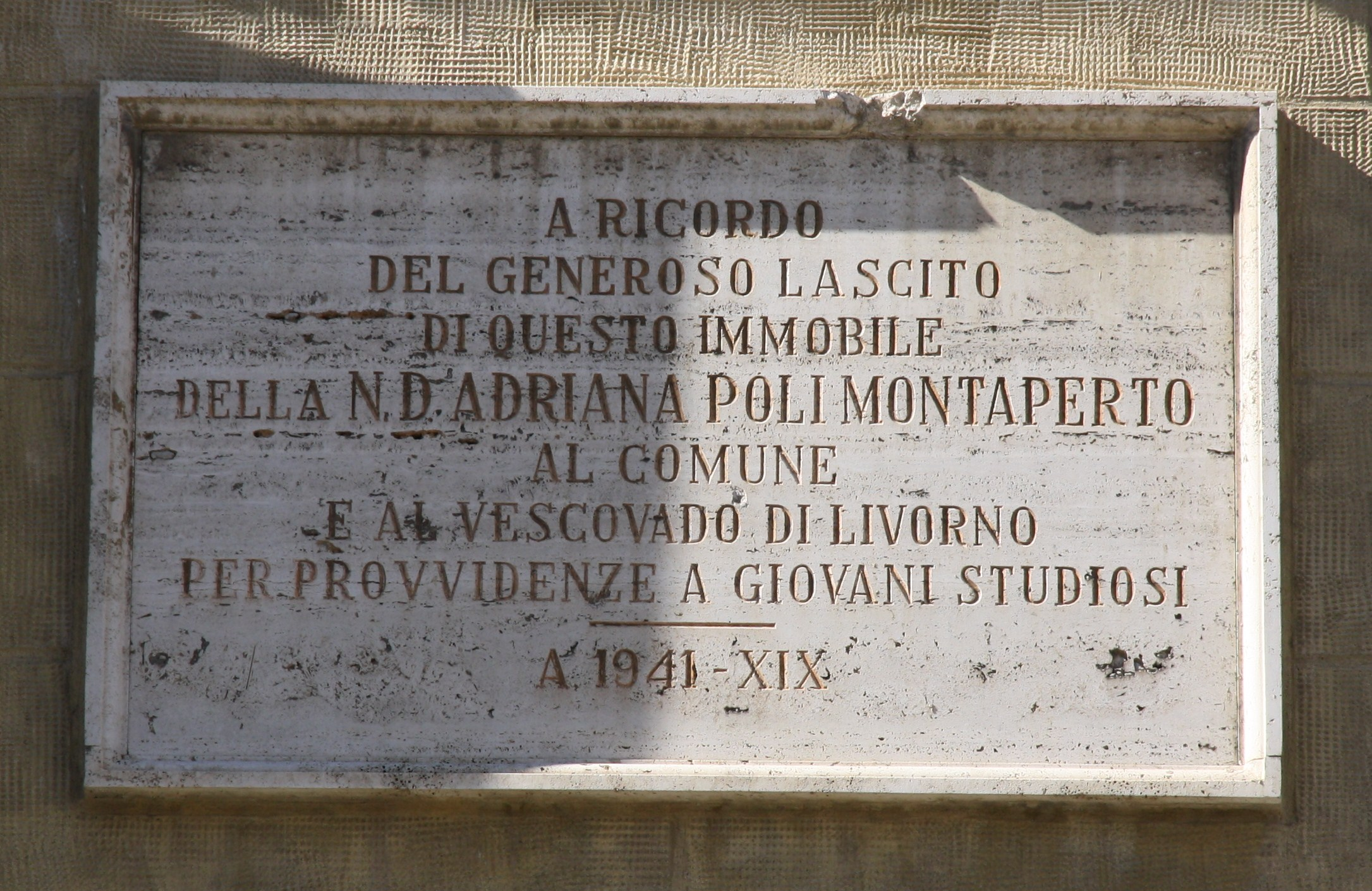 Italy, Livorno, Via Marradi 4, Palazzo Patron Santa Elisabetta. The plaque placed in 1941 on the façade to remember the legacy of Adriana Poli Montaperto Duchess of Santa Elisabetta.